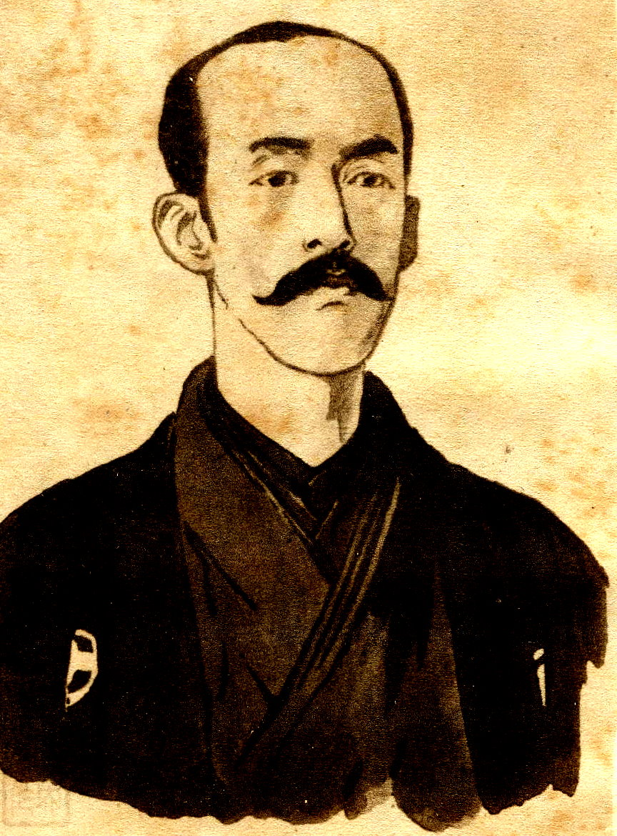 Nishizawa Senko（西澤仙湖） was a japanese collector of doll in Meiji era.